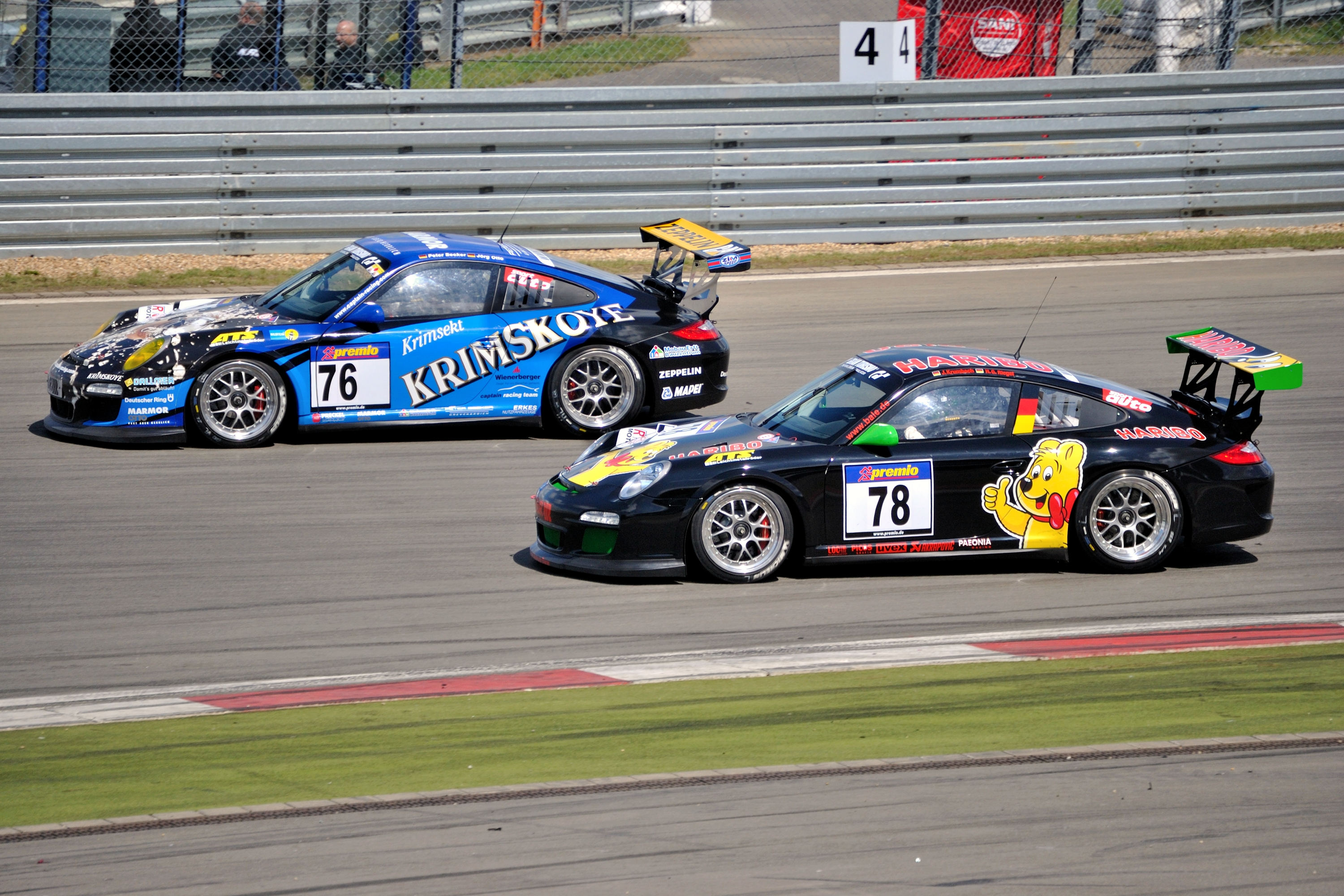 Nürburgring (District of Ahrweiler Rhineland-Palatinate, Germany) – terrace 4 – two Porsche 911 GT3 Cup Type 997This photograph was taken with a Nikon D3000